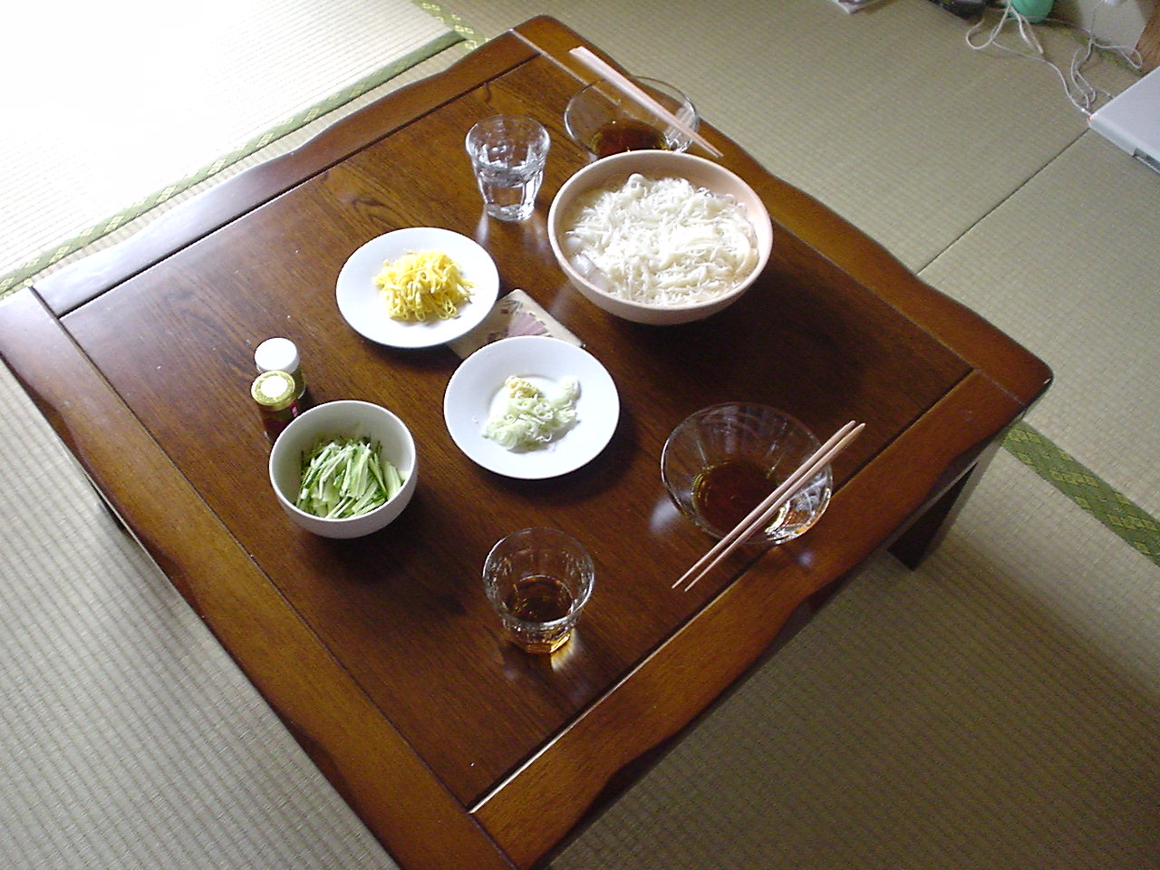 Sōmen.